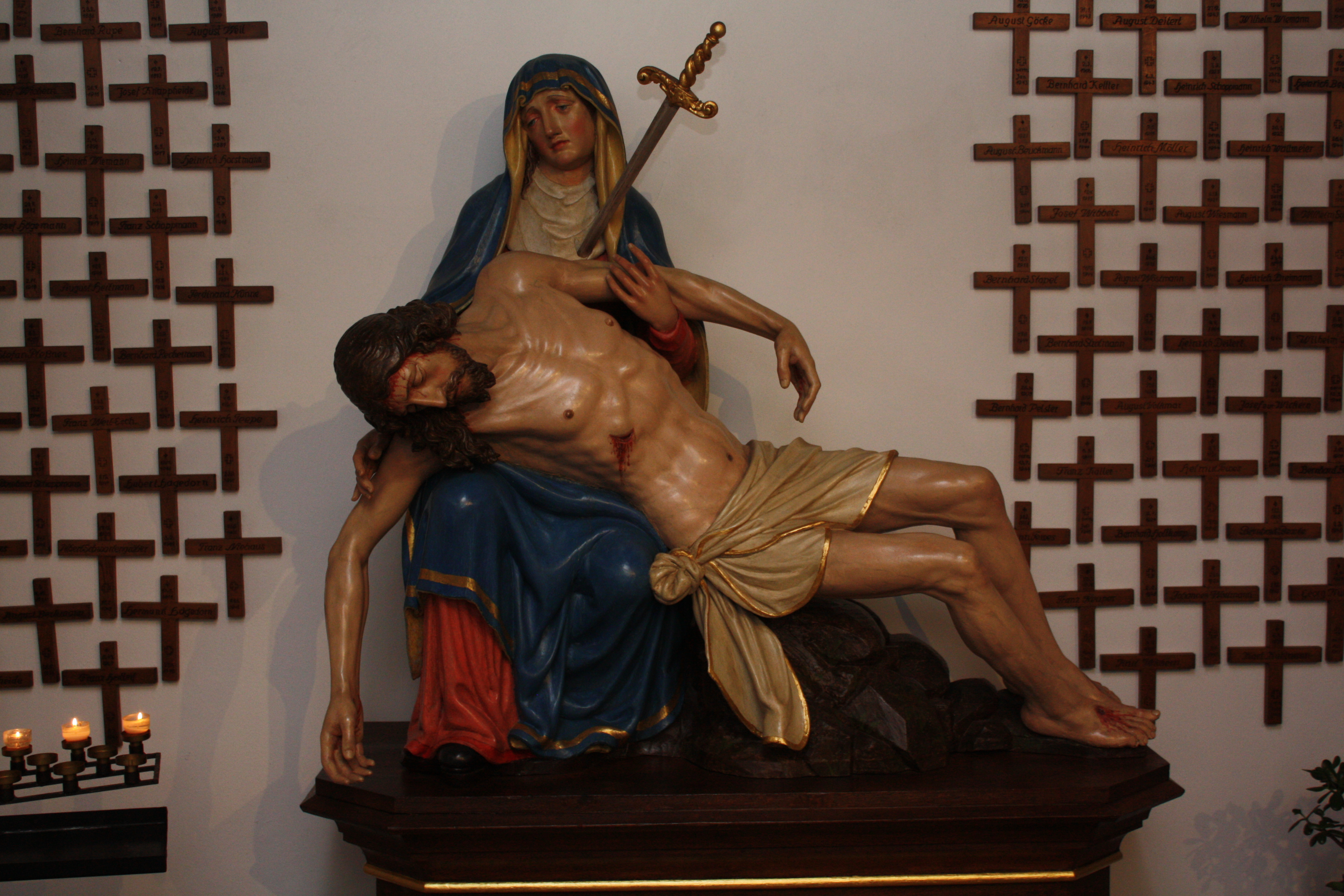 St. Johannes Baptist in Milte This photograph was taken with a Canon EOS 450D.